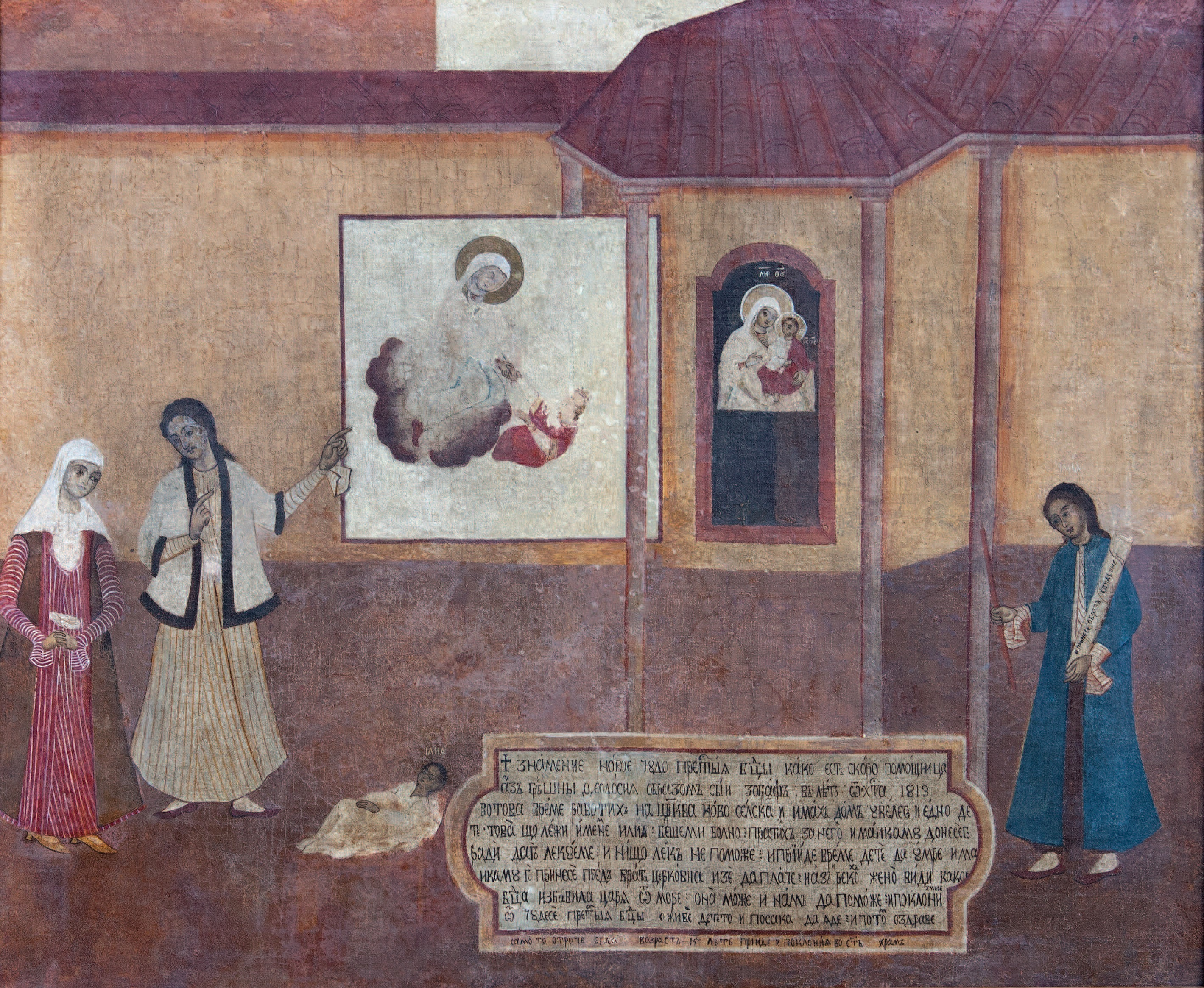 The Appearance of the New Miracle of the Holy Virgin